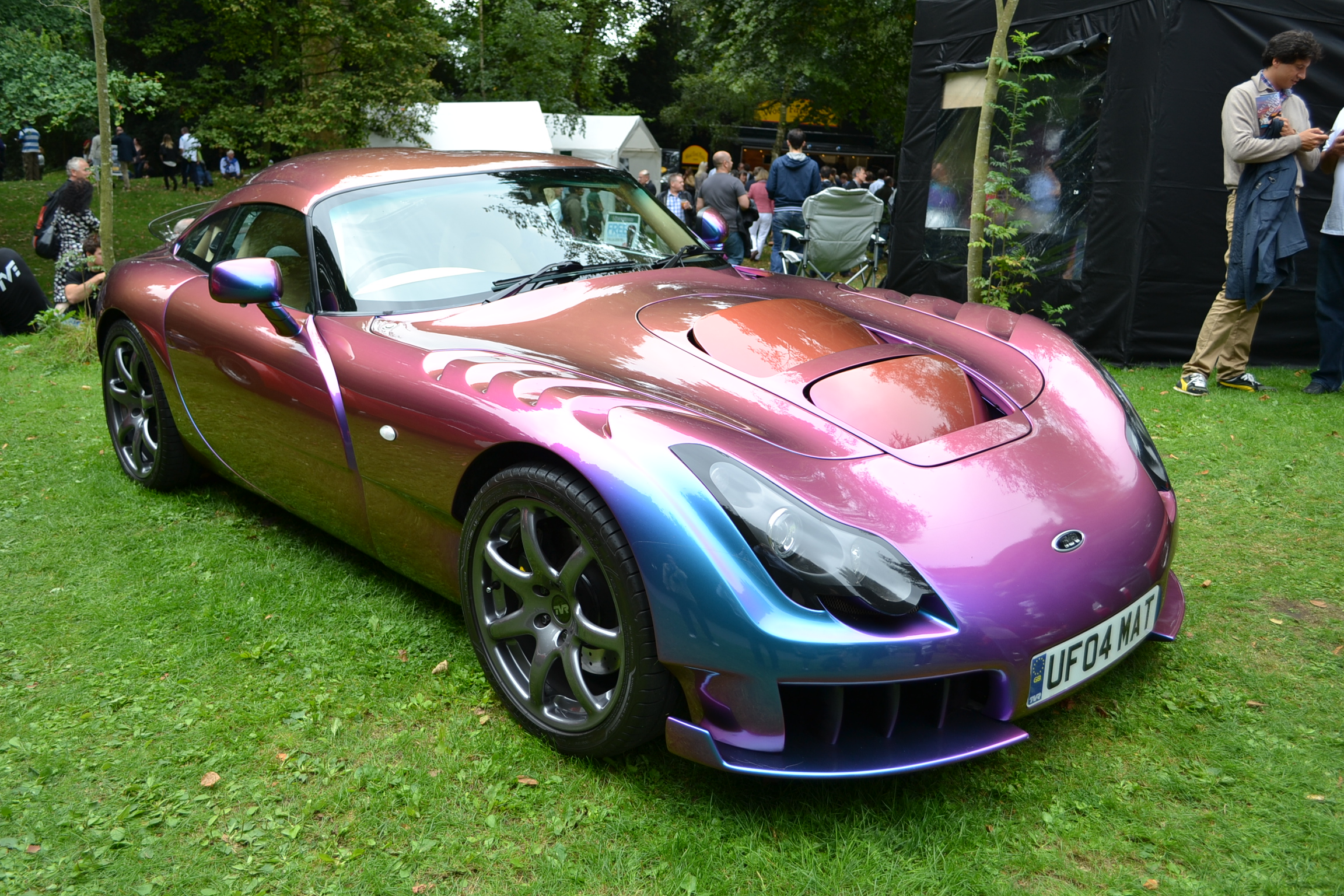 Chelsea Auto Legends 2012